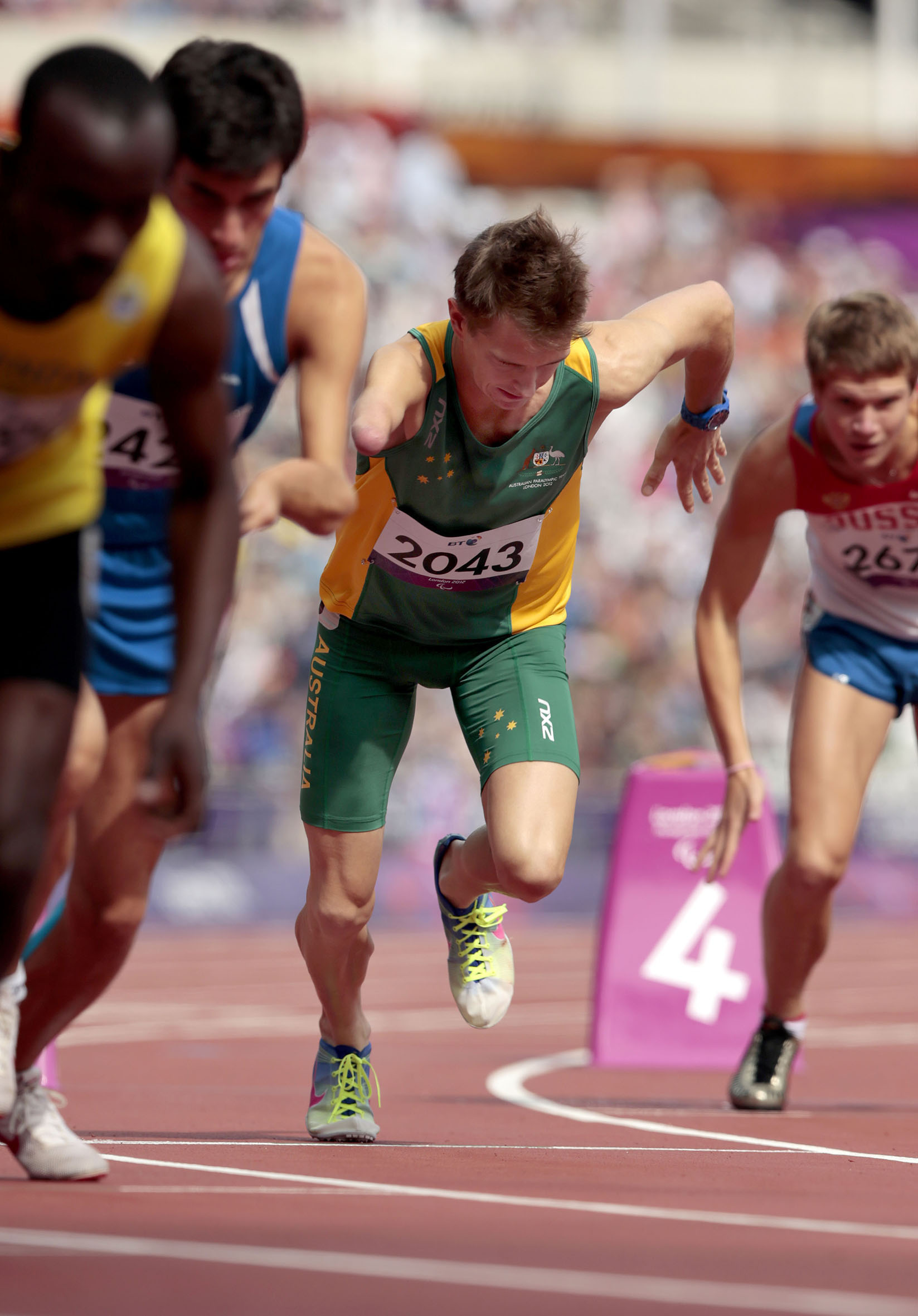 Photograph of Australian Paralympic team member Michael Roeger at the 2012 Summer Paralympic Games in London